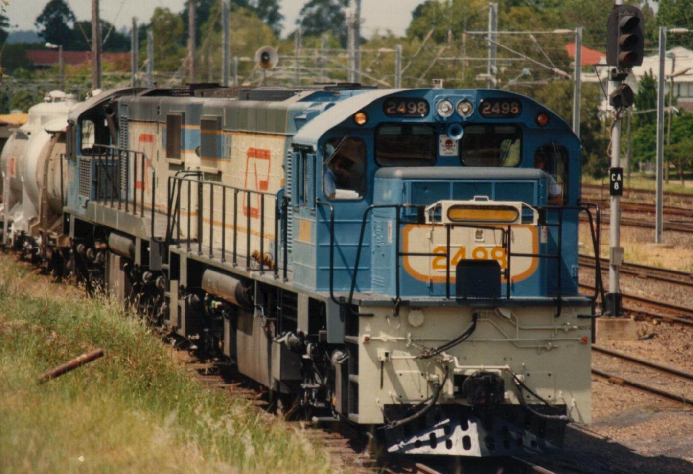 Queensland Rail 1550 Class DEL 2498 shunts a string of petrol wagons at Corinda station on the morning of 6 February 1998. Photo by Luke Cossins.